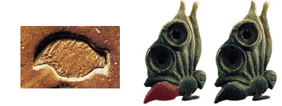 Comparison betwwen the sign 20 of the Phaistos Disc and the Zakros butterfly ( 1450 before J.C)